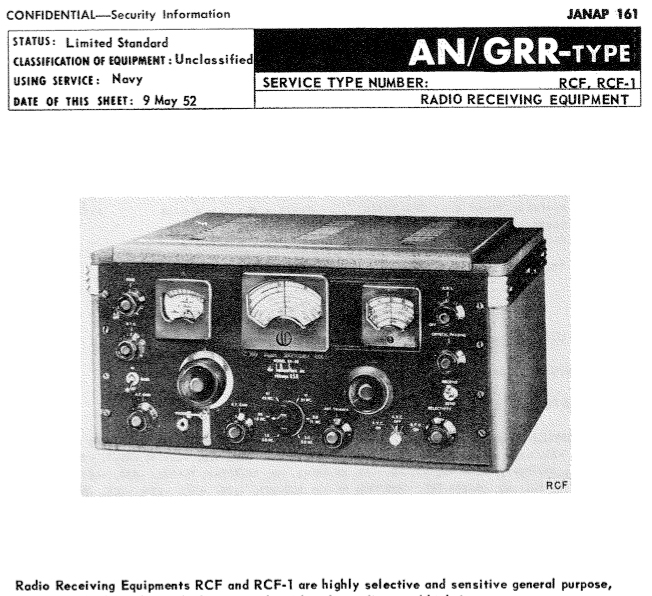 Data sheet for SX-28 radio receiver